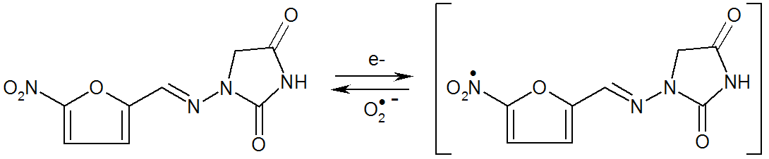 Nitrofurantoin - mechanism of action